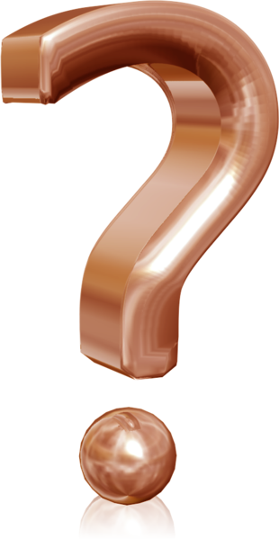 A three-dimensional copper question mark. For anyone interested: the font for the question mark is Bitstream Vera Sans, the reflection map used is Image:010609 28 villadesteacque.JPG